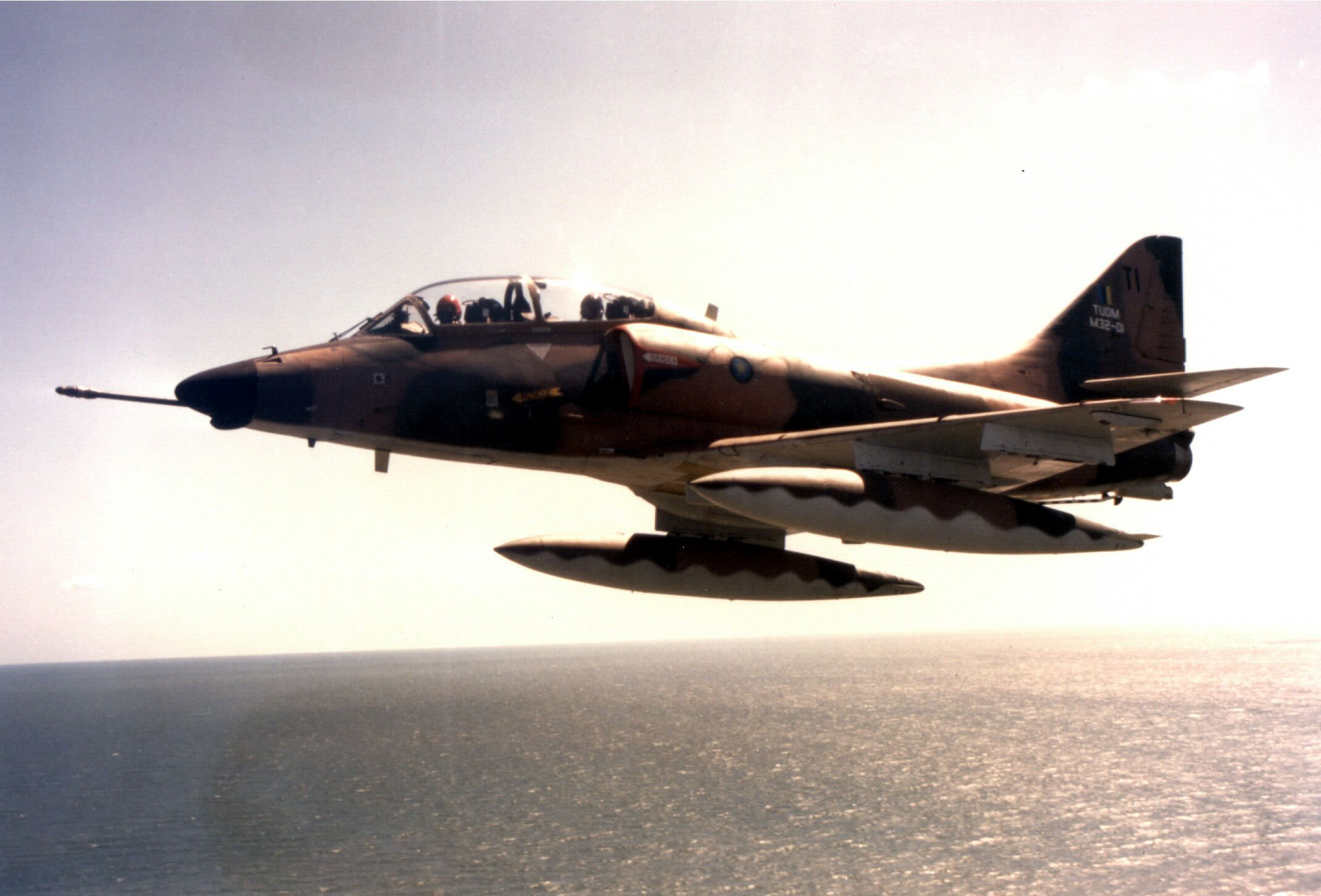 The first Royal Malaysian Air Force (Tentera Udara DiRaja Malaysia, TUDM) Douglas TA-4PTM Skyhawk (s/n M32-01) in flight. The TA-4PTM was a conversion of A-4C/L airframes with a cockpit similar to the TA-4F/J. The aircraft were modernised at the Grumman facility in St. Augustine, Florida (USA).